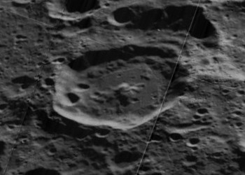 Oblique view of Meggers, on the far side of the moon, facing west.